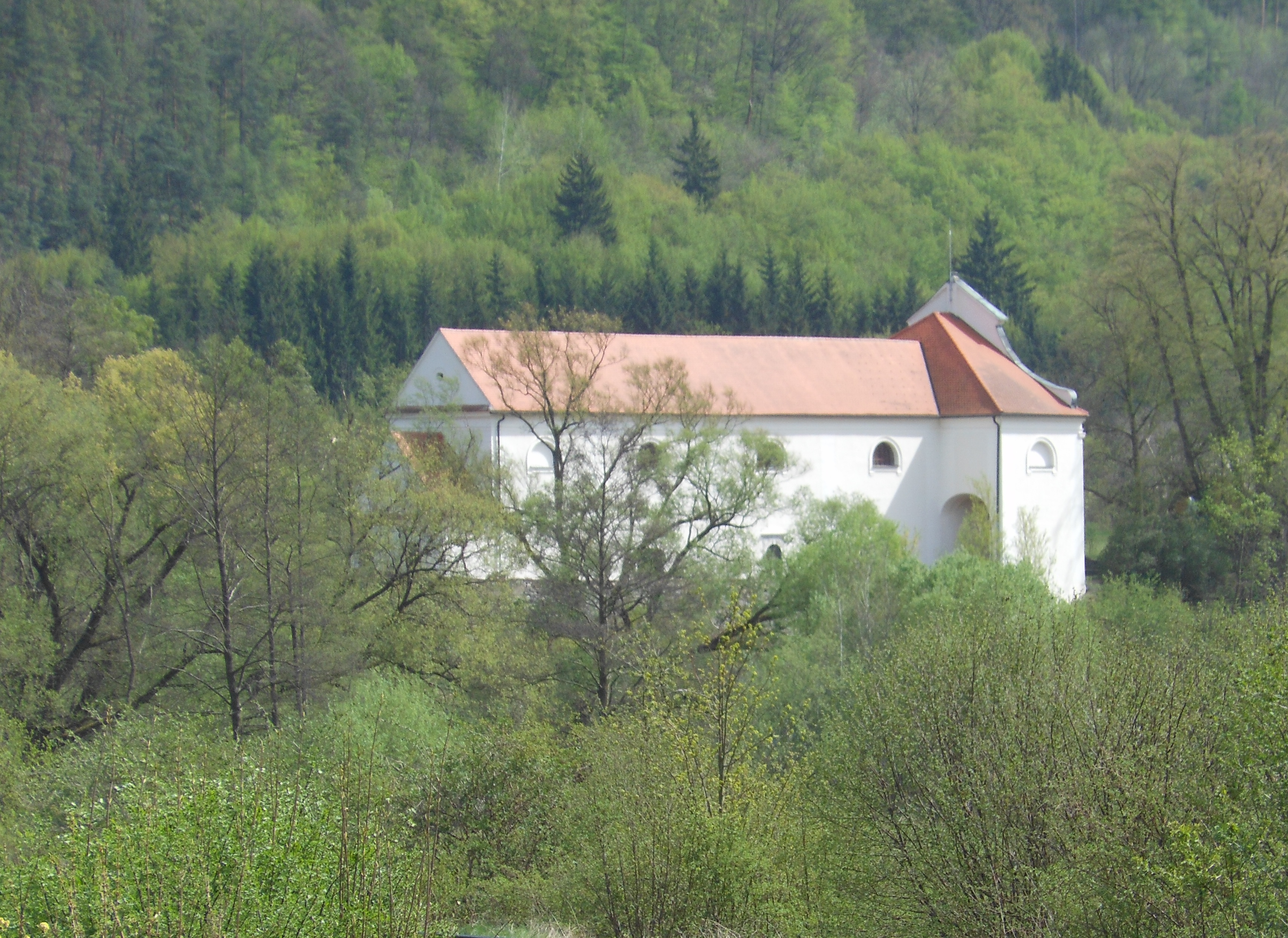 Church of the Assumption in Černvír